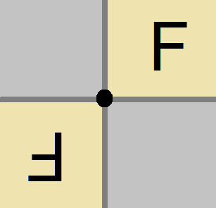 Cyclic symmetry example